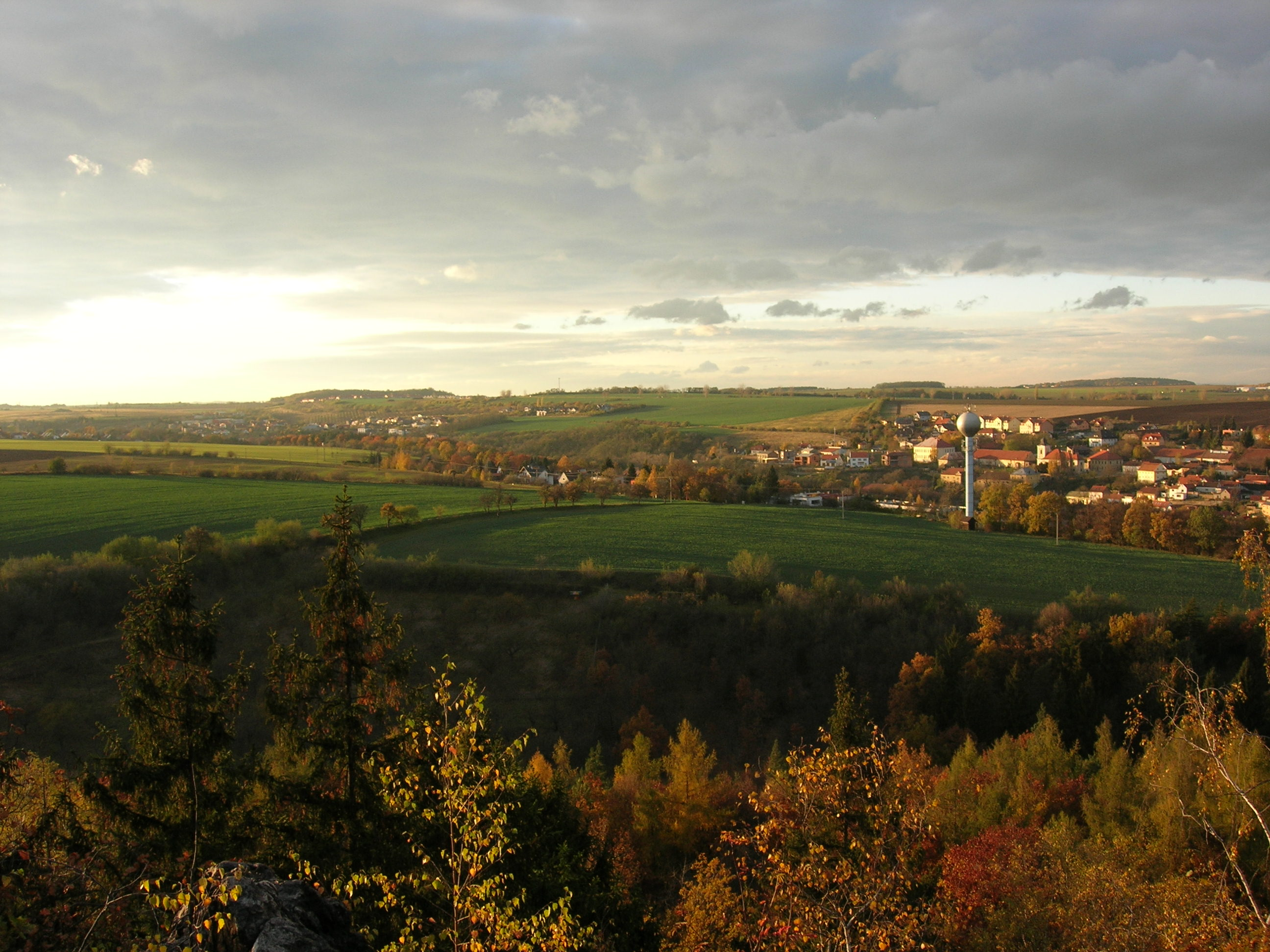 Nature reserve Údolí Únětického potoka near Suchdol, part of Prague, Czech Republic